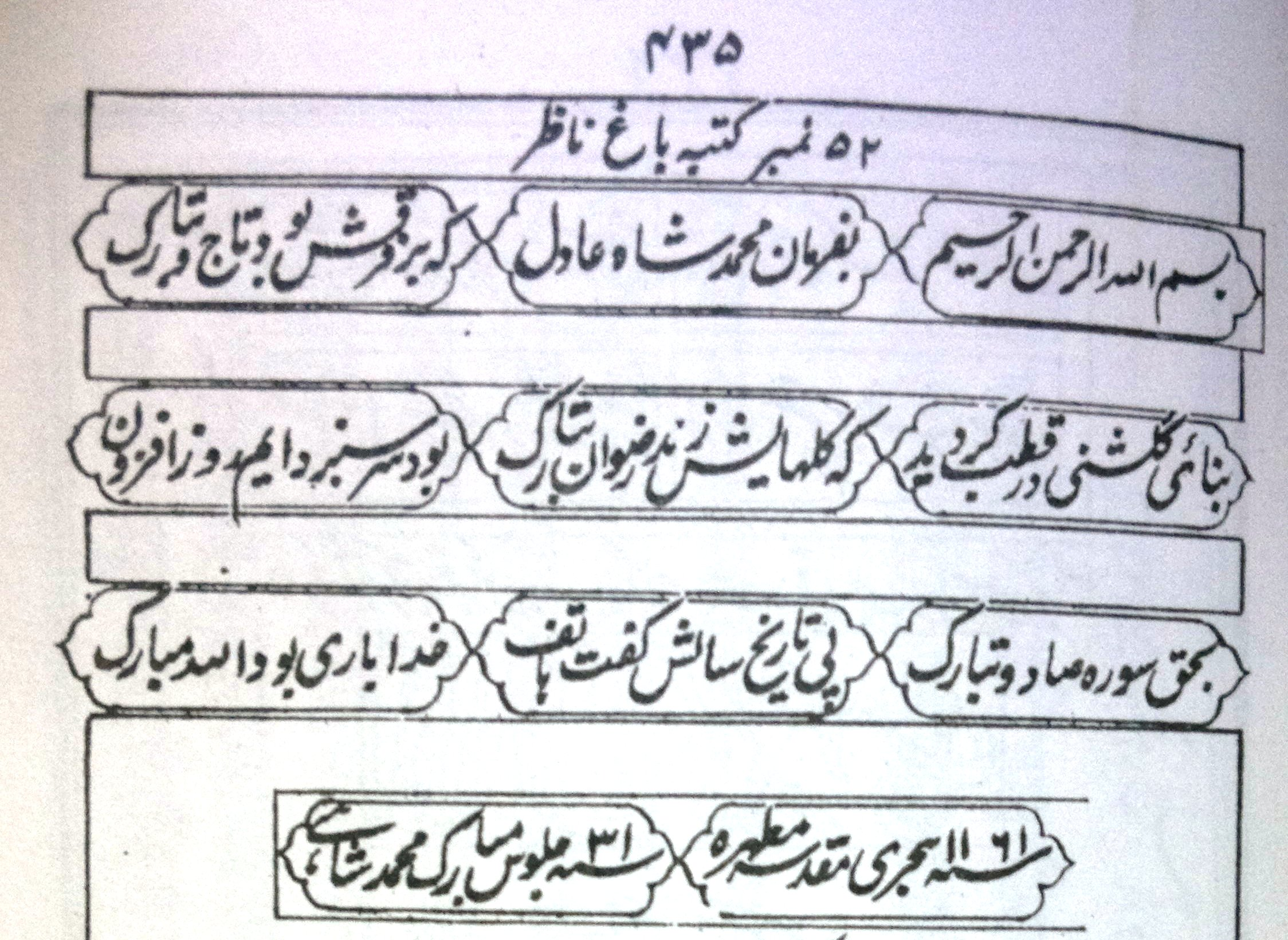 Baagh e Naazir was built by Muhammad Shah Rangila's Khwaja Sara ( Chief Eunuch) in the year 1748. this garden contained a number of pavilions, the most notable among which was made of red sandstone . Sir Syed Ahmad Khan's seminal work on the monuments of Delhi , Aasar us Sanadeed , contains a description and a sketch of the monument as it appeared in 1854. This inscription was found on the gateway. It contains references to Muhammad Shah and the date in which the garden was laid.